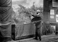 Howard Pyle at work.